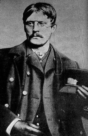 Knut Hamsun in Chicago in 1884, dressed as bus conductor